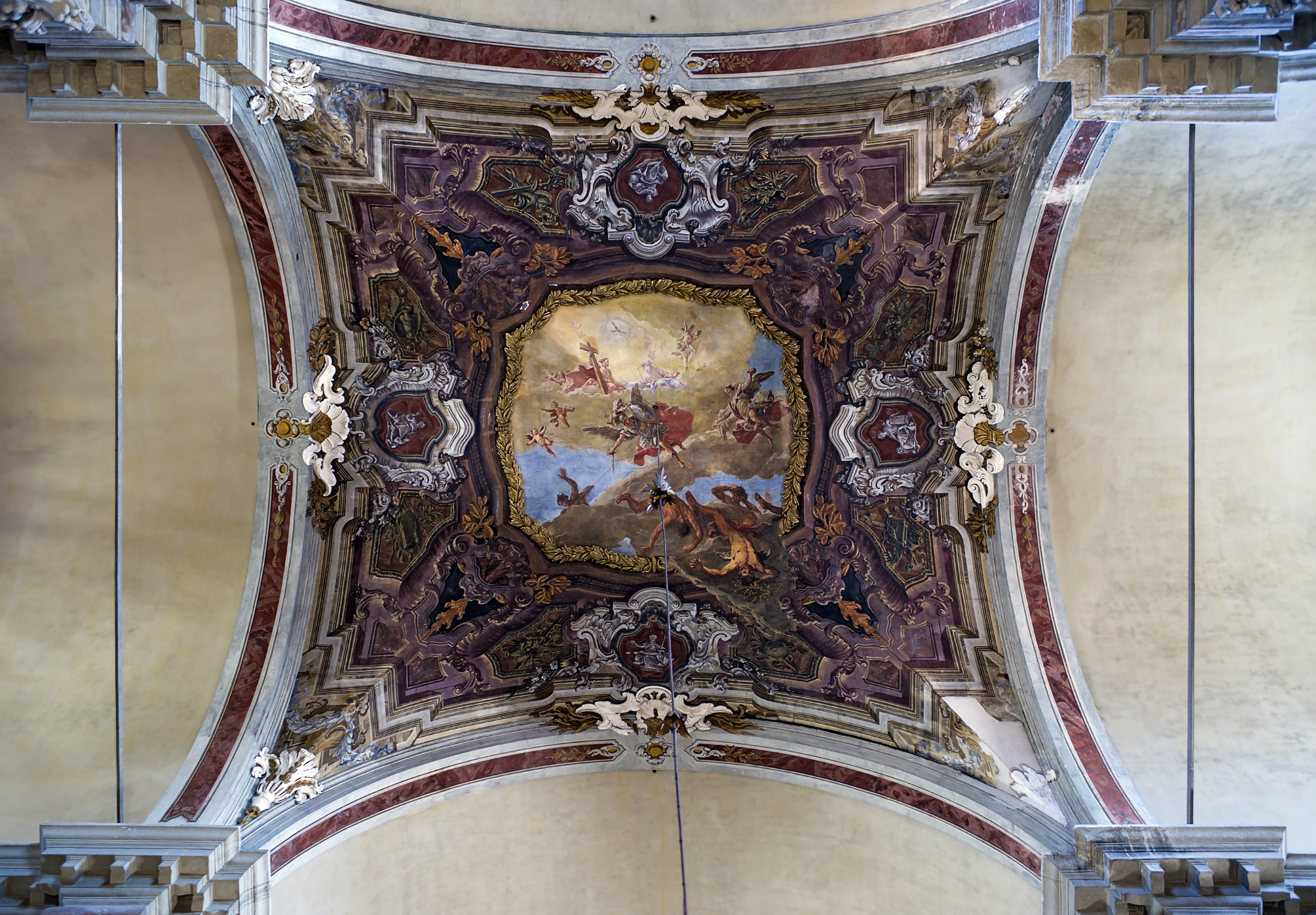 Saint Raphael churches in Venice - ceiling by Francesco Fontebasso